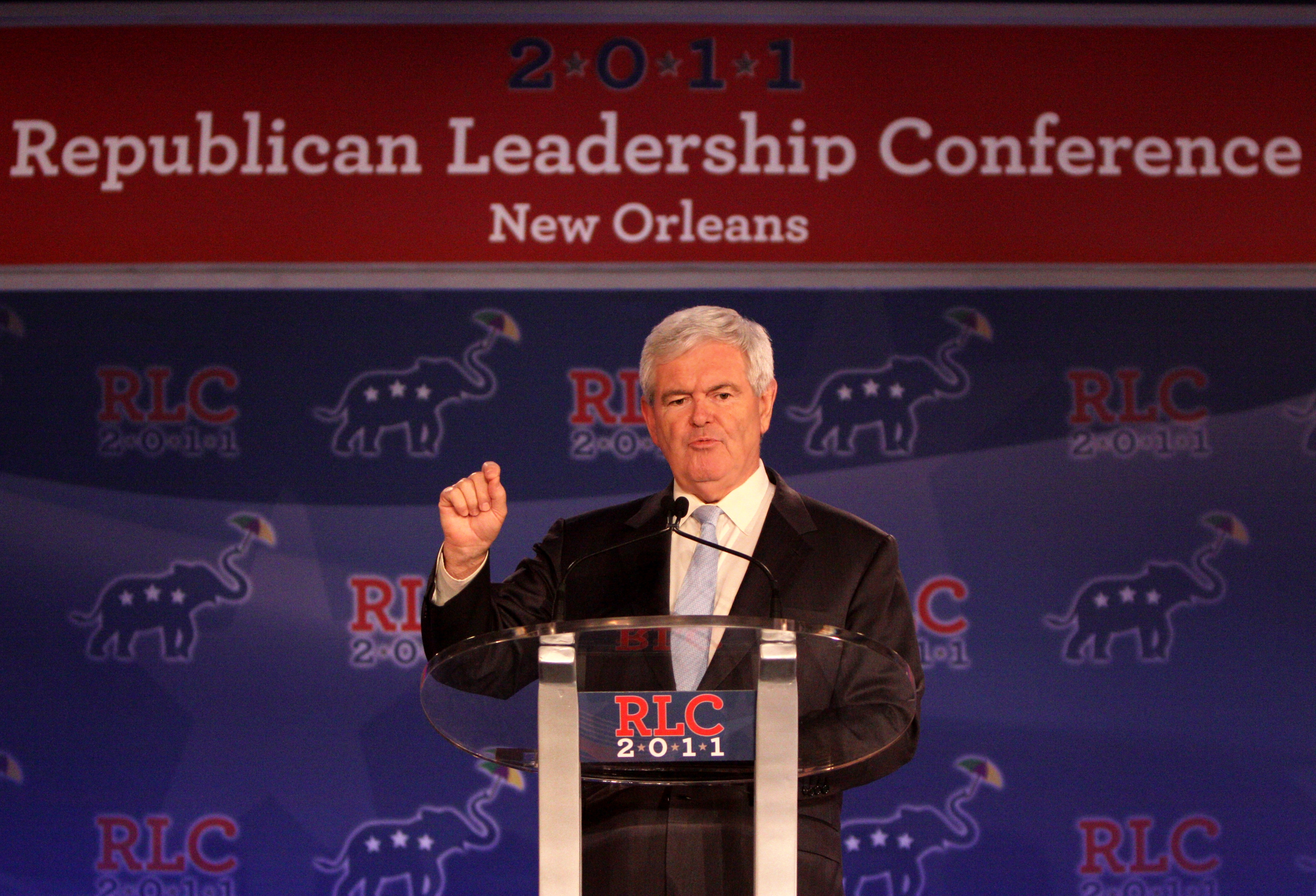 Republican Leadership Conference 2011